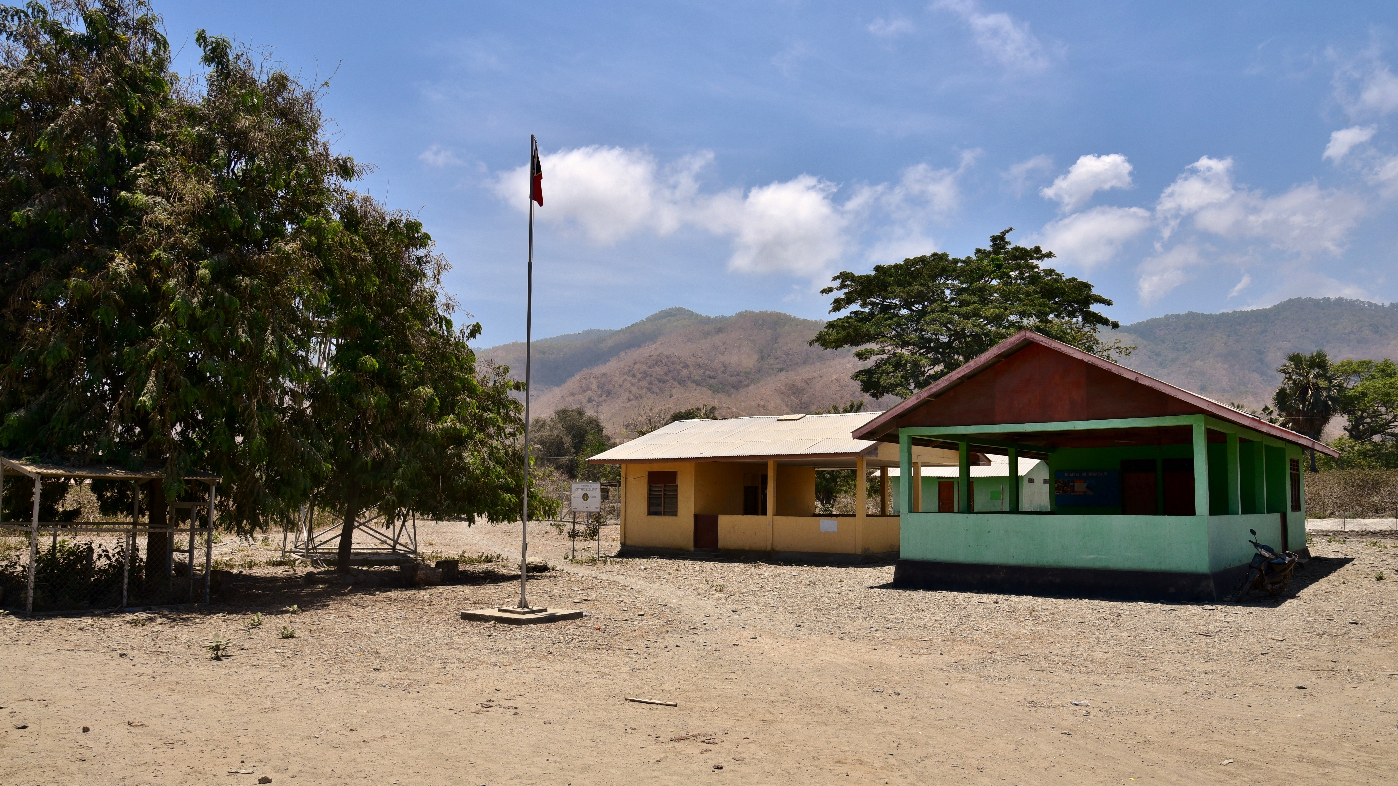 View of the Centru Mediasaun (Mediation Centre), Metinaro, East Timor